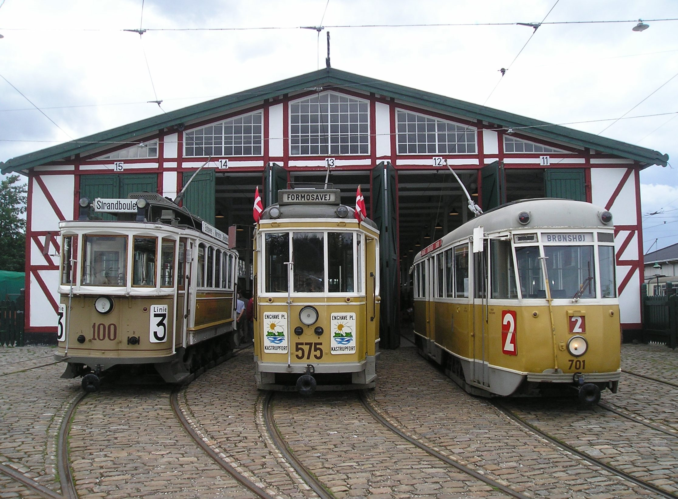 Three trams from Copenhagen, KS 100 as line 3, KS 575 as Kastrup Fort Linien and KS 701 as line 2 in the from of Valby Gamle Remise at Sporvejsmuseet Skjoldenæsholm in Denmark.